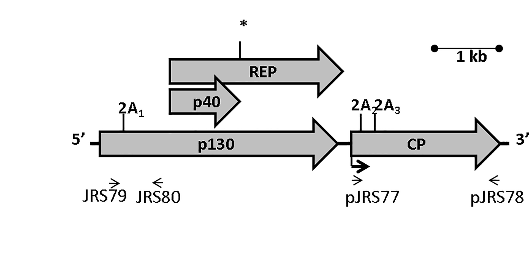 Schematic diagram showing the genome organization of providence virus (PrV). The three ORFs p130, REP (viral RdRp) and CP (viral capsid) are shown. The 2A-like processing sites (2A1, 2A2 and 2A3) are marked in p130 and CP. The (*) in REP indicates a readthrough stop codon resulting in the production of p40 (replication accessory protein) and REP from the same sequence.